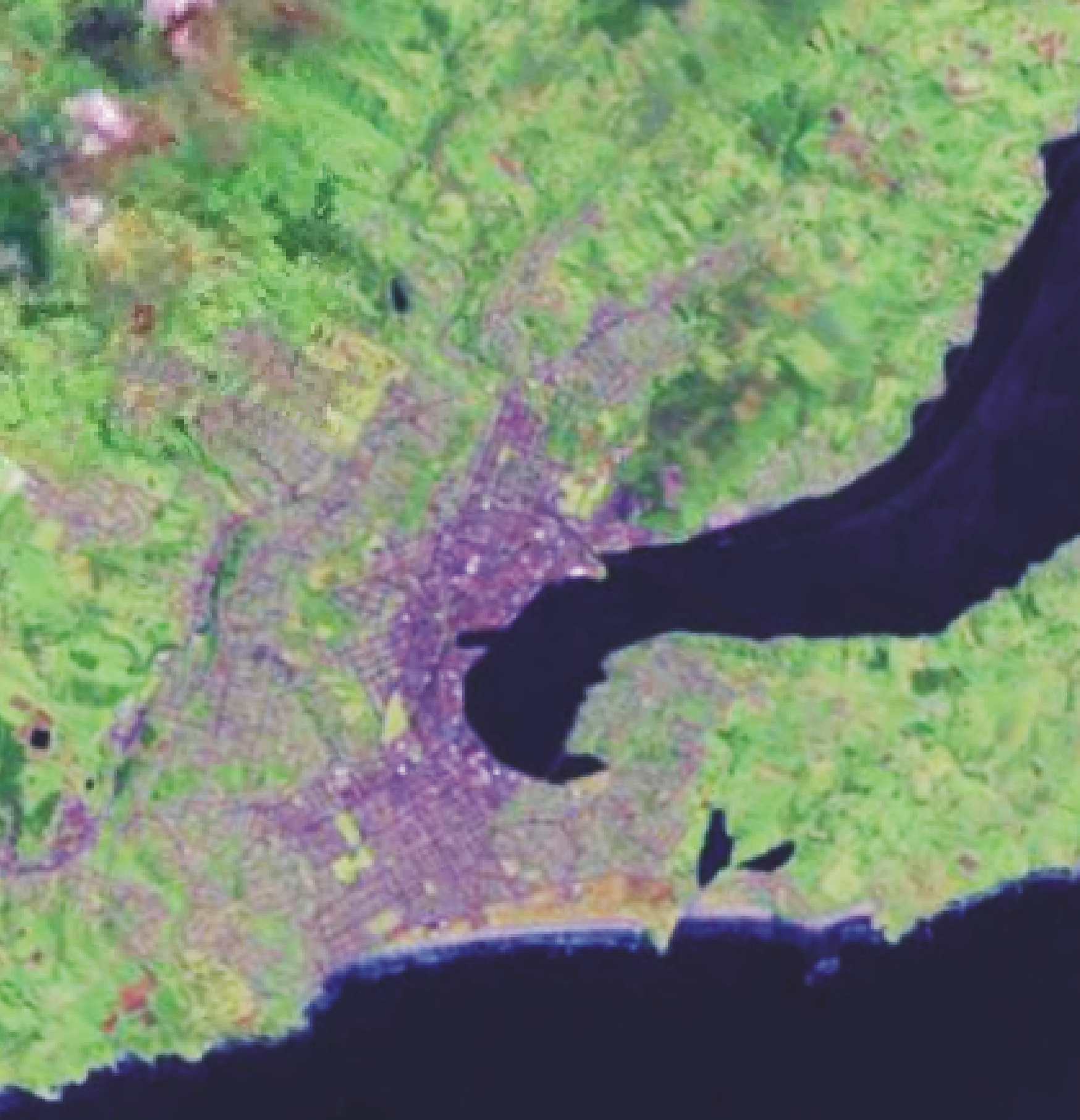 Dunedin city urban area no inset, New Zealand